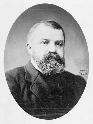 Dwight Lyman Moody, founder of the Northfield Seminary, Mount Hermon School, and the Moody Bible Institute, circa 1900. Edited image from the Library of Congress